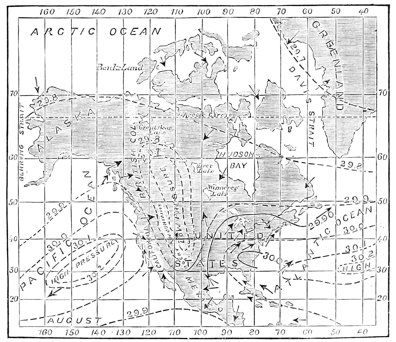 Chart of equal barometric pressures in and around north america